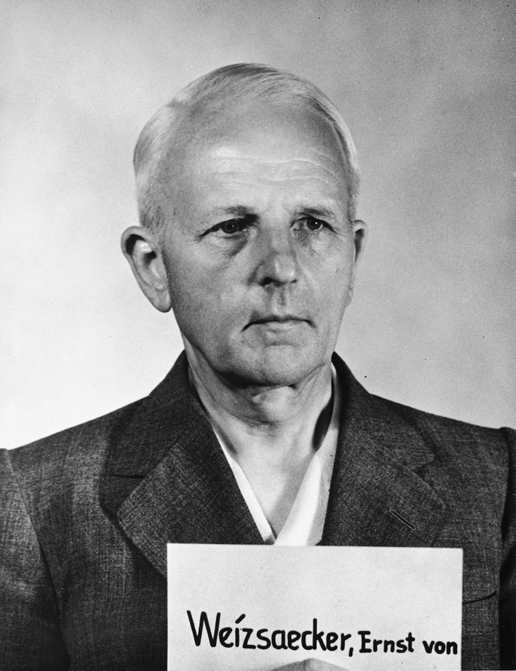 Mugshot of Nazi defendant Ernst von Weizsaecker, the principal defendant of the Ministries Trial